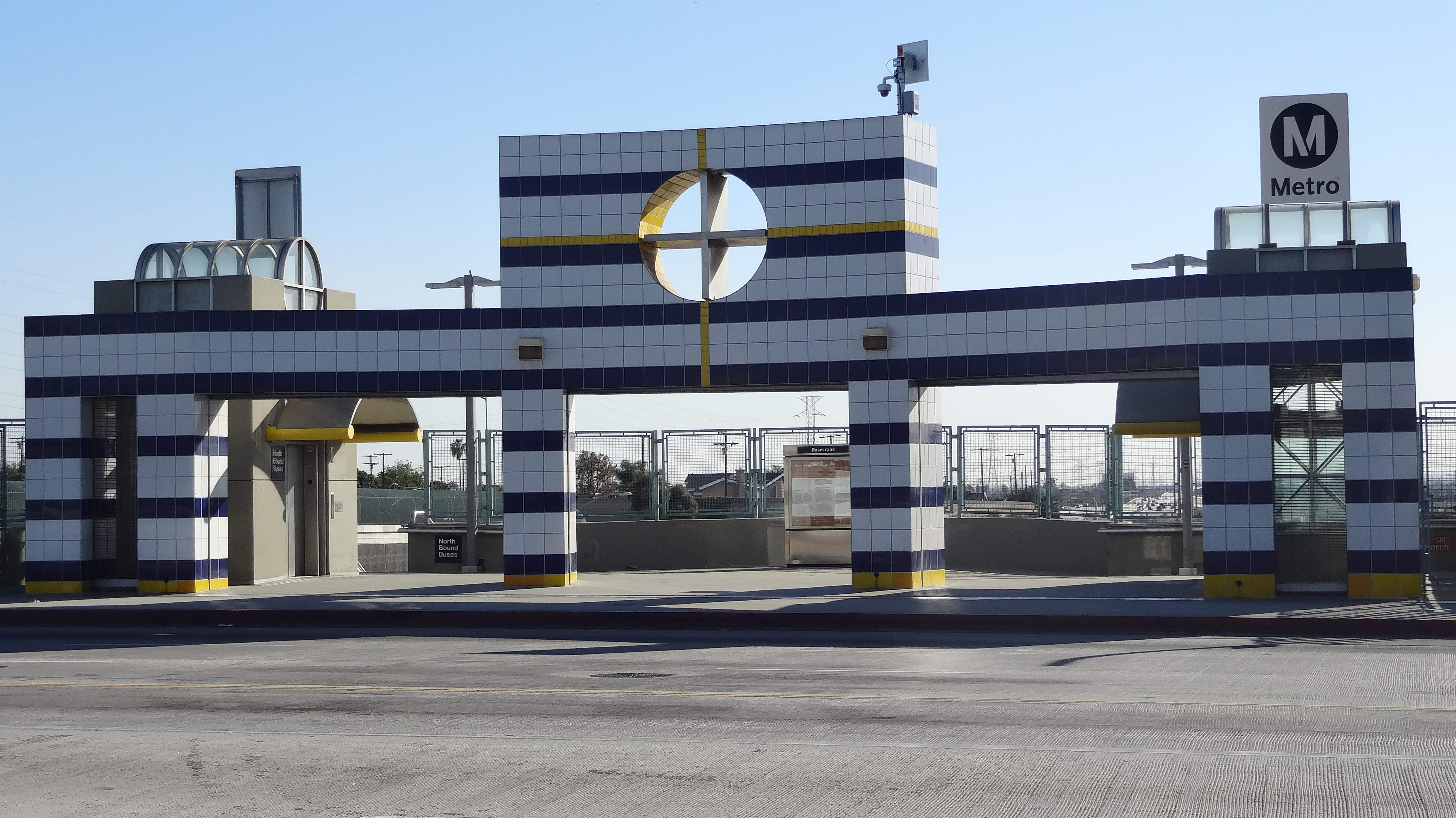 Entrance to Rosecrans Metro Silver Line Station